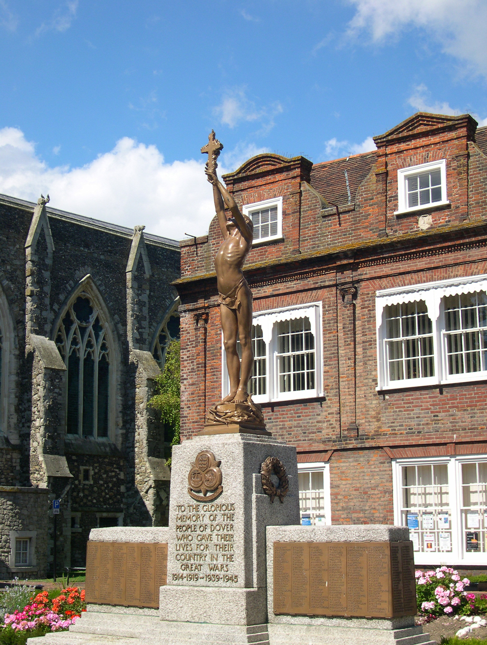 Bronze sculpture in square in front of Dover Town Council building; a new inscription was added in 1949 to honour those lost in World War II